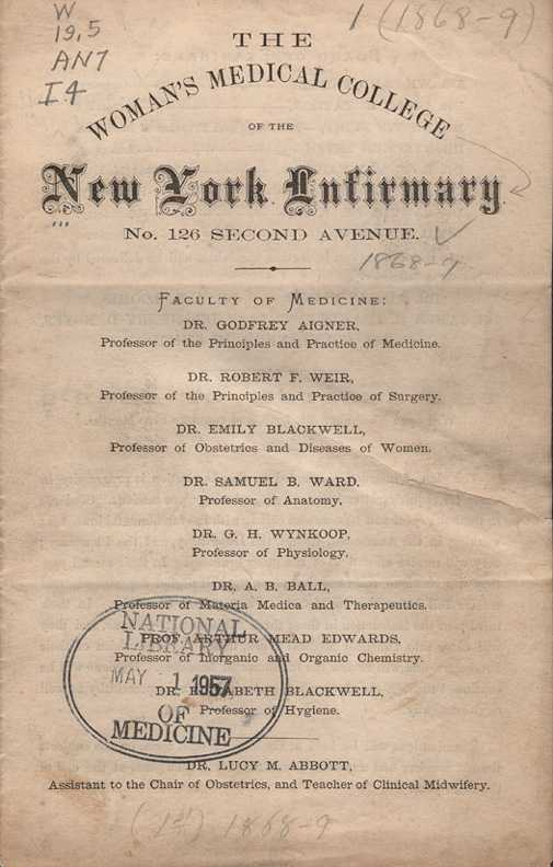 The Woman's Medical College of the New York Infirmary. [Announcement, 1868-69] New York, 1868 National Library of Medicine.